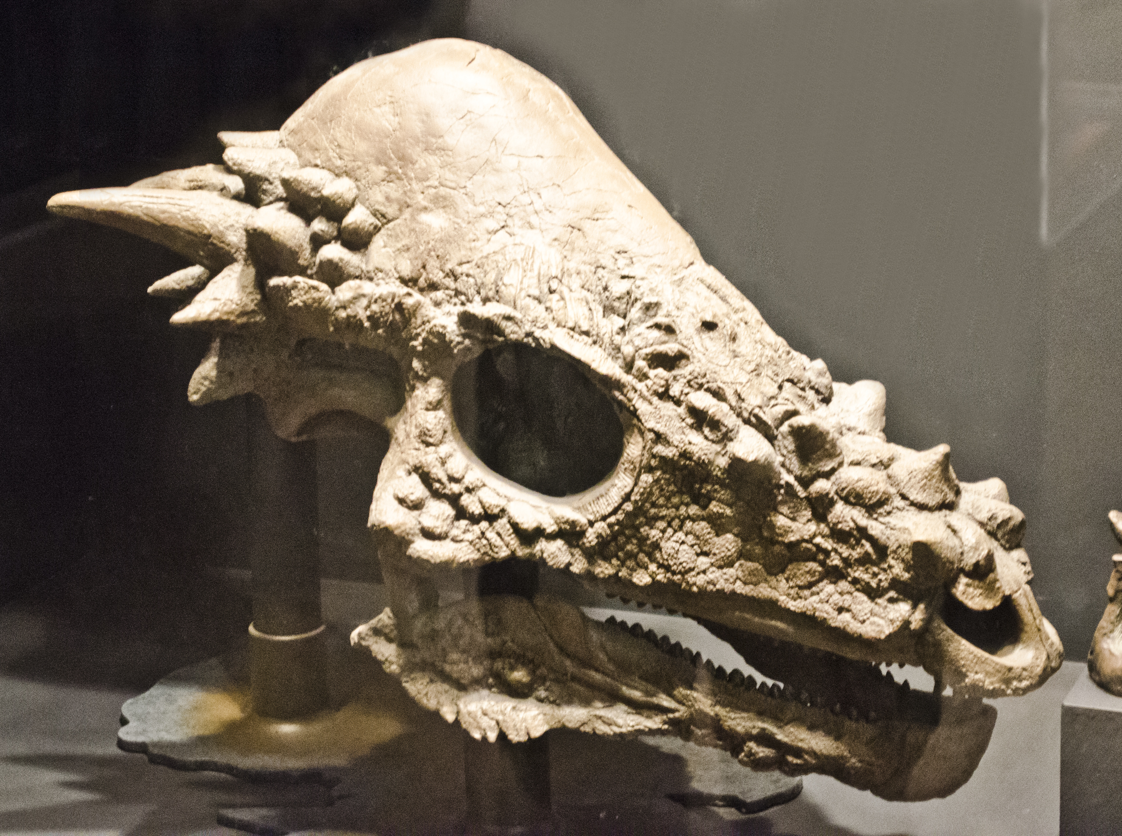 Subadult Pacycephalosaurus skull (cast) at the Museum of the Rockies in Bozeman, Montana. Dinosaurs are grouped into four growth categories: baby, juvenile, subadult, and adult. Pacy skulls change dramatically over time in the amount in which knobs protrude from the skull, and the shape of these protrustions (in babies and juveniles, they are sharp horns but soften into round knobs in adulthood).